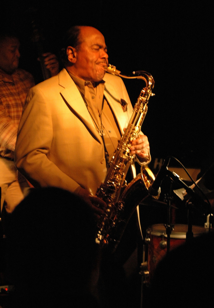 Benny Golson at 106th and Broadway, NYC, 3/11/06